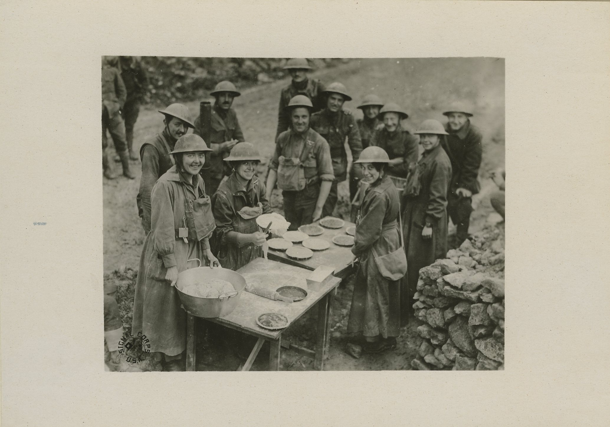 Salvation Army, Ansonville [ie : Ansauville], France. Female workers in helmets and carrying gas masks. Making pies for soldiers.